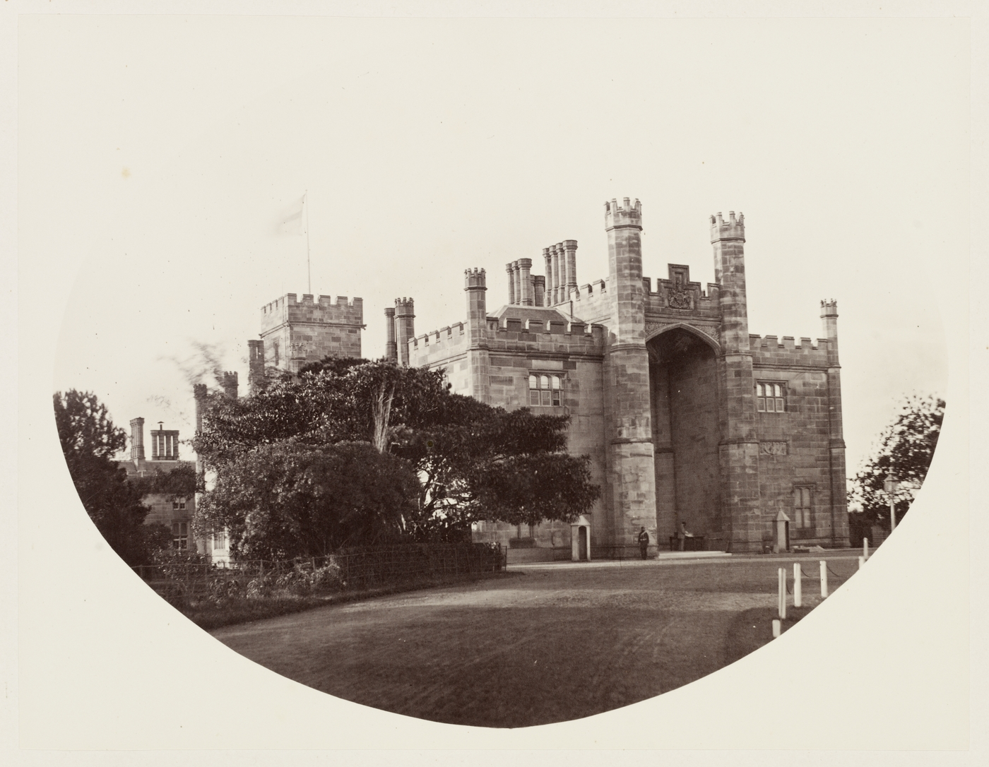 122. Government House (Showing Porch) SH 578